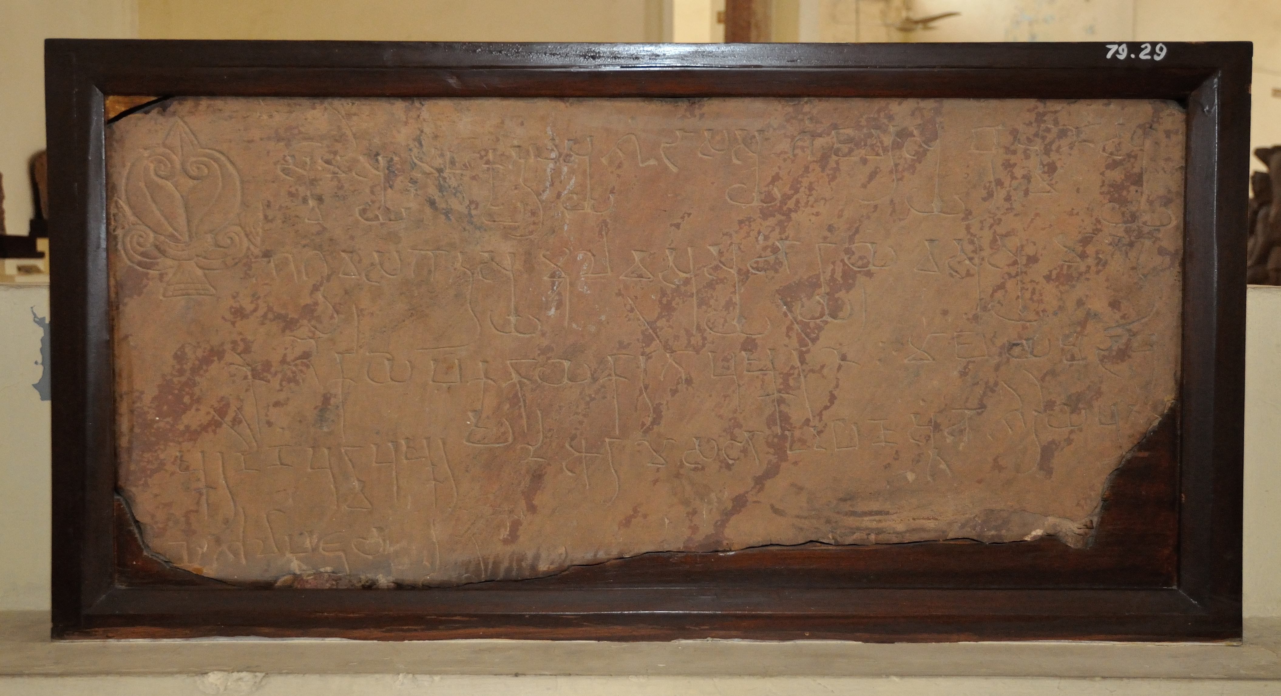 This artefact resides at the Government Museum, (hi: Rashtriya Sangrahalaya) formerly The Curzon Museum of Archaeology, Museum Road or Murari Lal Rajpal road, Dampier Nagar, Mathura, Uttar Pradesh, India. This museum is administrating by the State Government of Uttar Pradesh of India. The inscription reads: 1.1 Svamisya Mahaksatrapasya Sodasasya gamjavarasya Brahmanasya. 1.2 Segravasa gotrasya Mulavasusya bharyaye Vasusya matare. 1.3 Kausikiye Paksakaye karita puskarini imasam Yamada pu 1.4 skaraninam purva puskarani aramo sabha udapano stambho siriye pratima 1.5 ye sila patto ca "Kausiki Paksaka, mother of Vasu and wife of Mulavasu (who was the) treasurer of Svami Mahaksatrapa Shodasa and (who was) a Brahmana belonging to the Saigrava gotra, caused to erect the eastern (water) tank out of the twin tanks, a grove or garden, place for assembly, a well, a pillar and a stone slab of the image of Laksmi."[1][2]